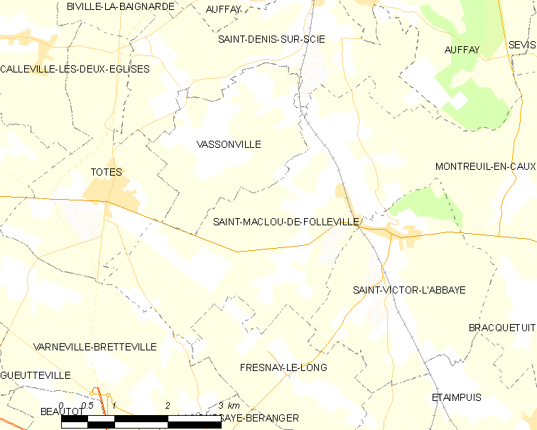 Map of French municipality Saint-Maclou-de-Folleville